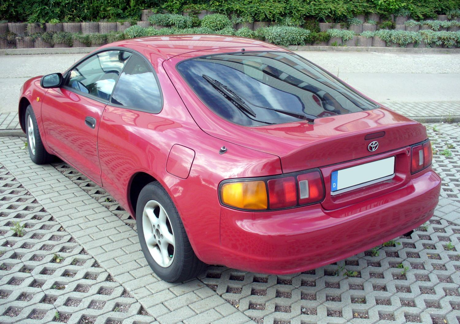 Toyota Celica 1.8 ST (AT200) shown in Renaissance Red (colour code 3L2).